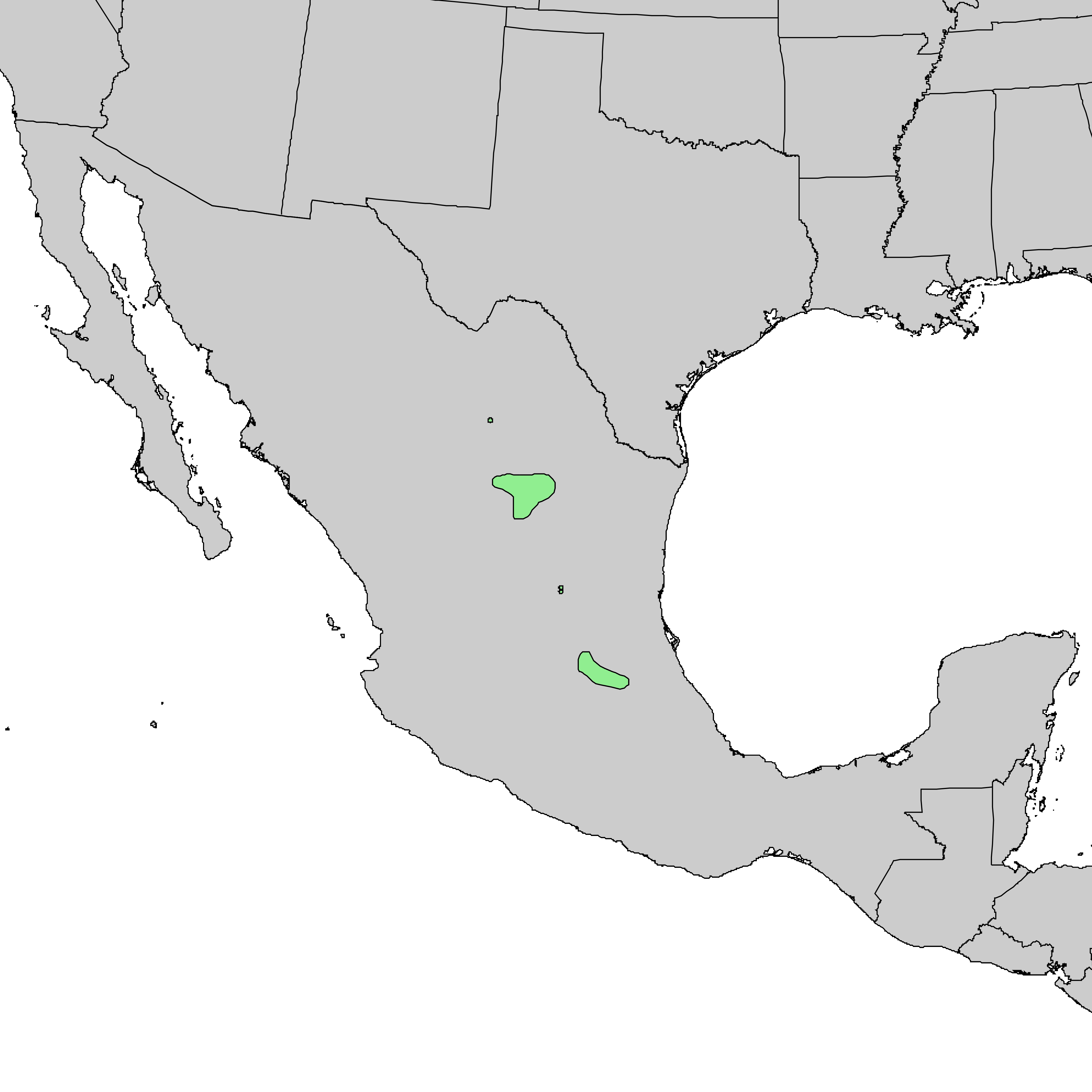 Natural distribution map for Pinus pinceana